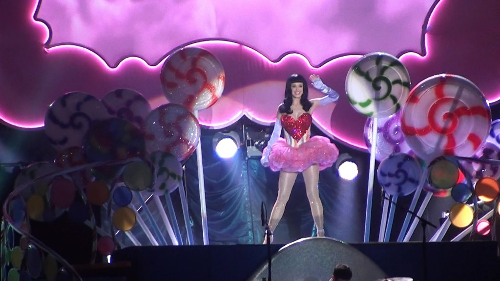 Performance by Katy Perry for the song "Teenage Dream" in her world tour California Dreams Tour.